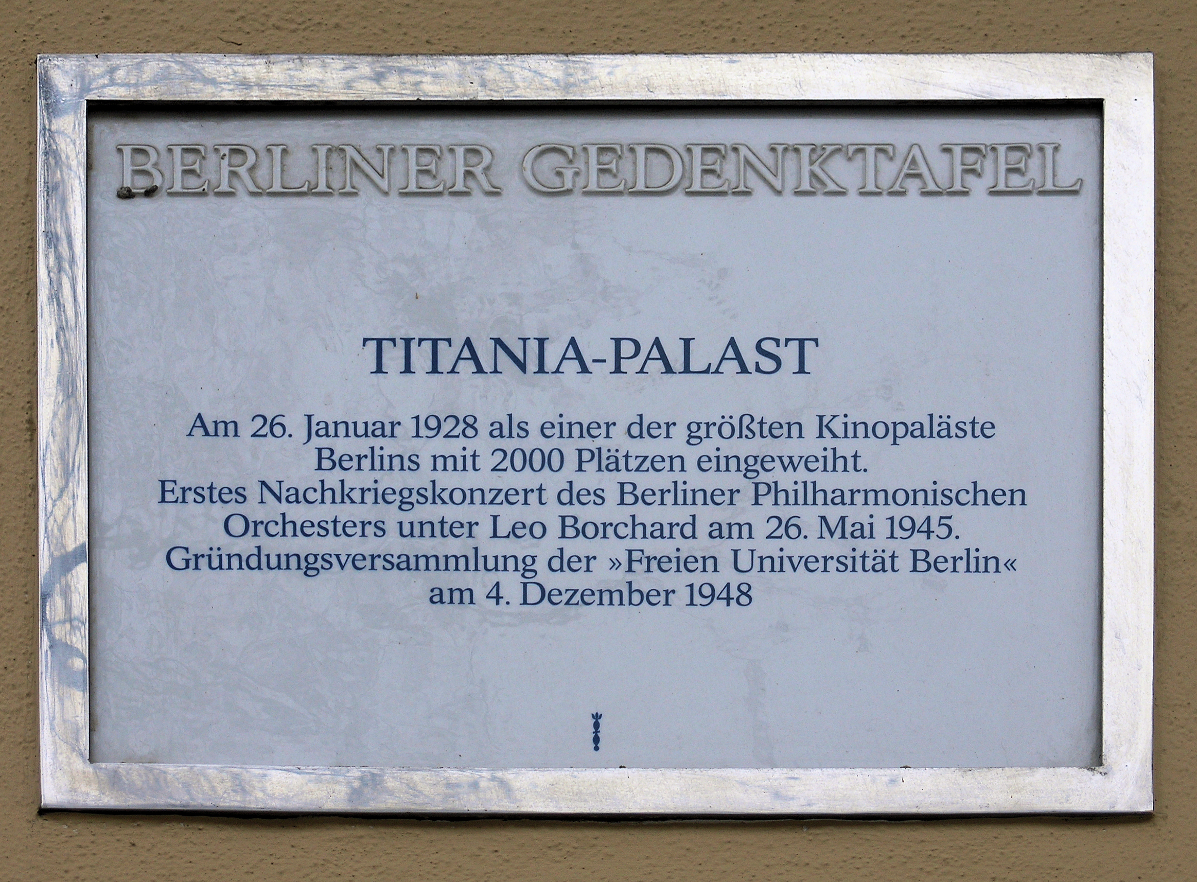 Berlin memorial plaque, Titania Palast, Schloßstraße 4, Berlin-Steglitz, Germany Koordinate:52°27′50″N 13°19′37″E / 52.46389°N 13.32694°E